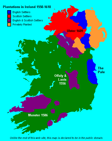 Map of Ireland in 1609 showing the major Plantations of Ireland